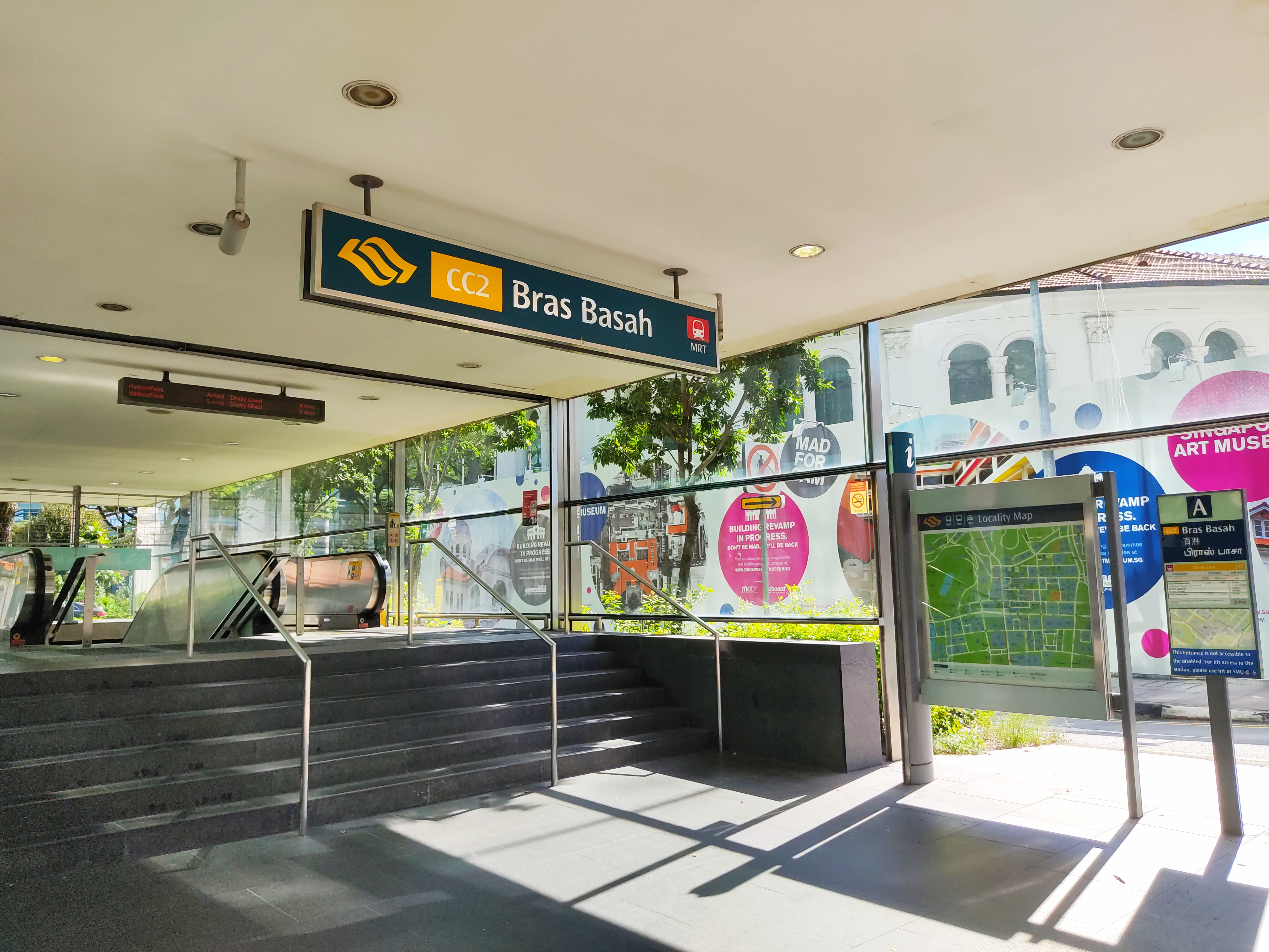 Exit A of Bras Basah